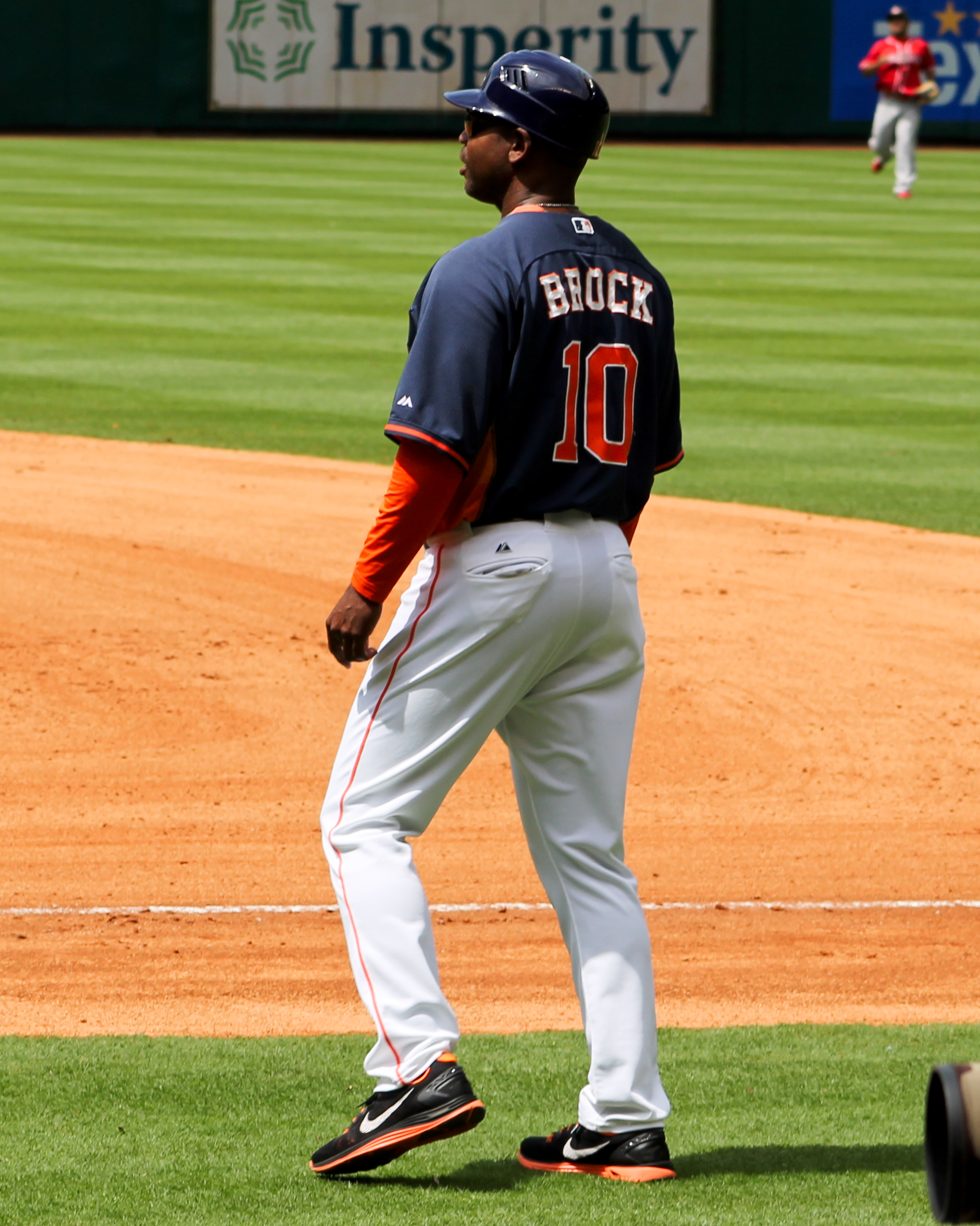 Tarrik Brock coaches first base for the Houston Astros in a preseason game in March 2014.